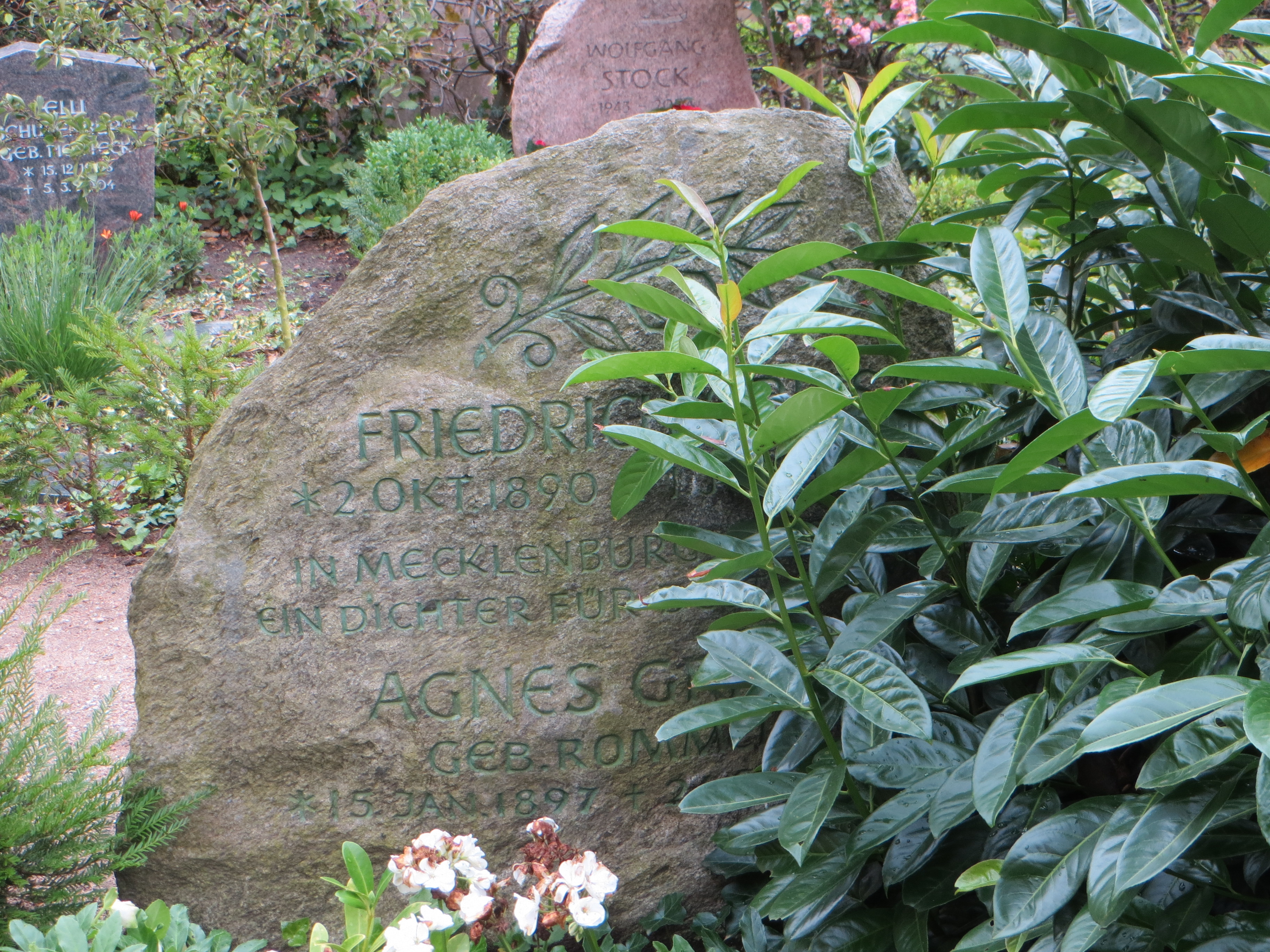 Ratzeburg Cathedral Cemetery, Friedrich Griese